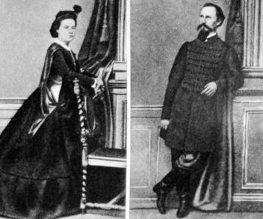 Parents of Marshall Józef Piłsudski: Maria and Józef Piłsudscy.